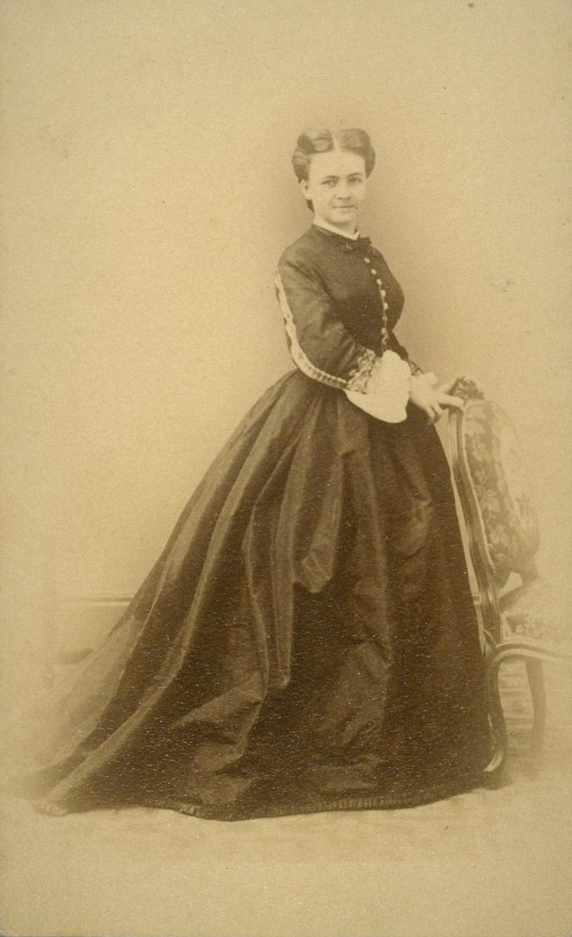 Lillie Hitchcock Coit (1842-1929), namesake of Coit Tower, San Francisco, California